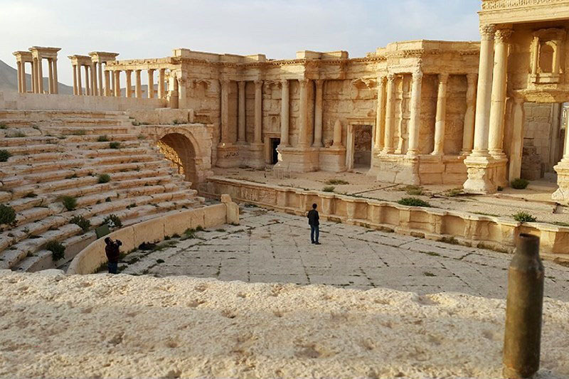 Palmyra after Islamic State's defeat by Russia–Syria–Iran–Iraq coalition and freedom.